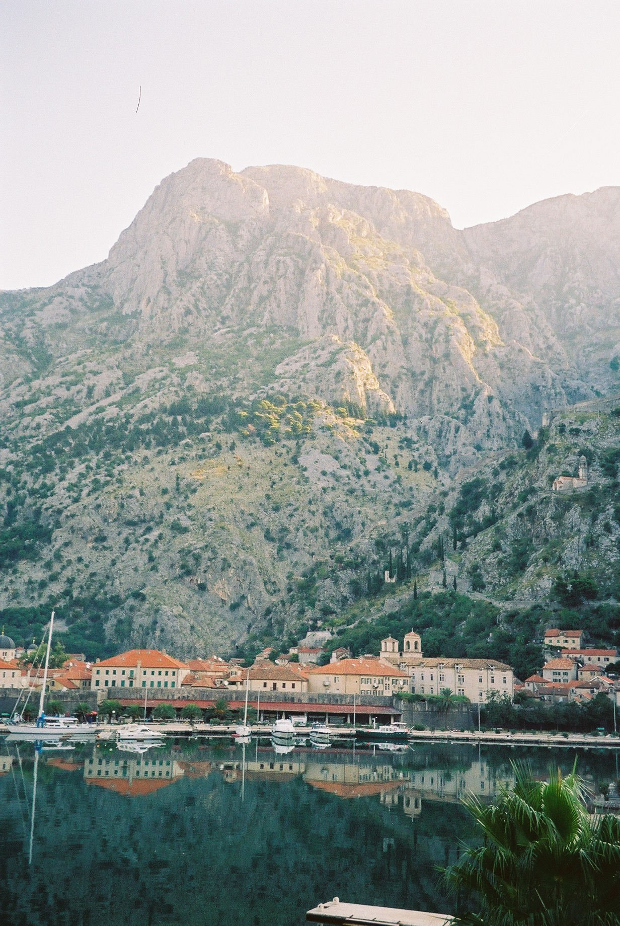 Description: Mountain overlooking Montenegrin city of Kotor Source: Sares Date: 24 Sept., 2005 Author: Sares Other versions of this file: none